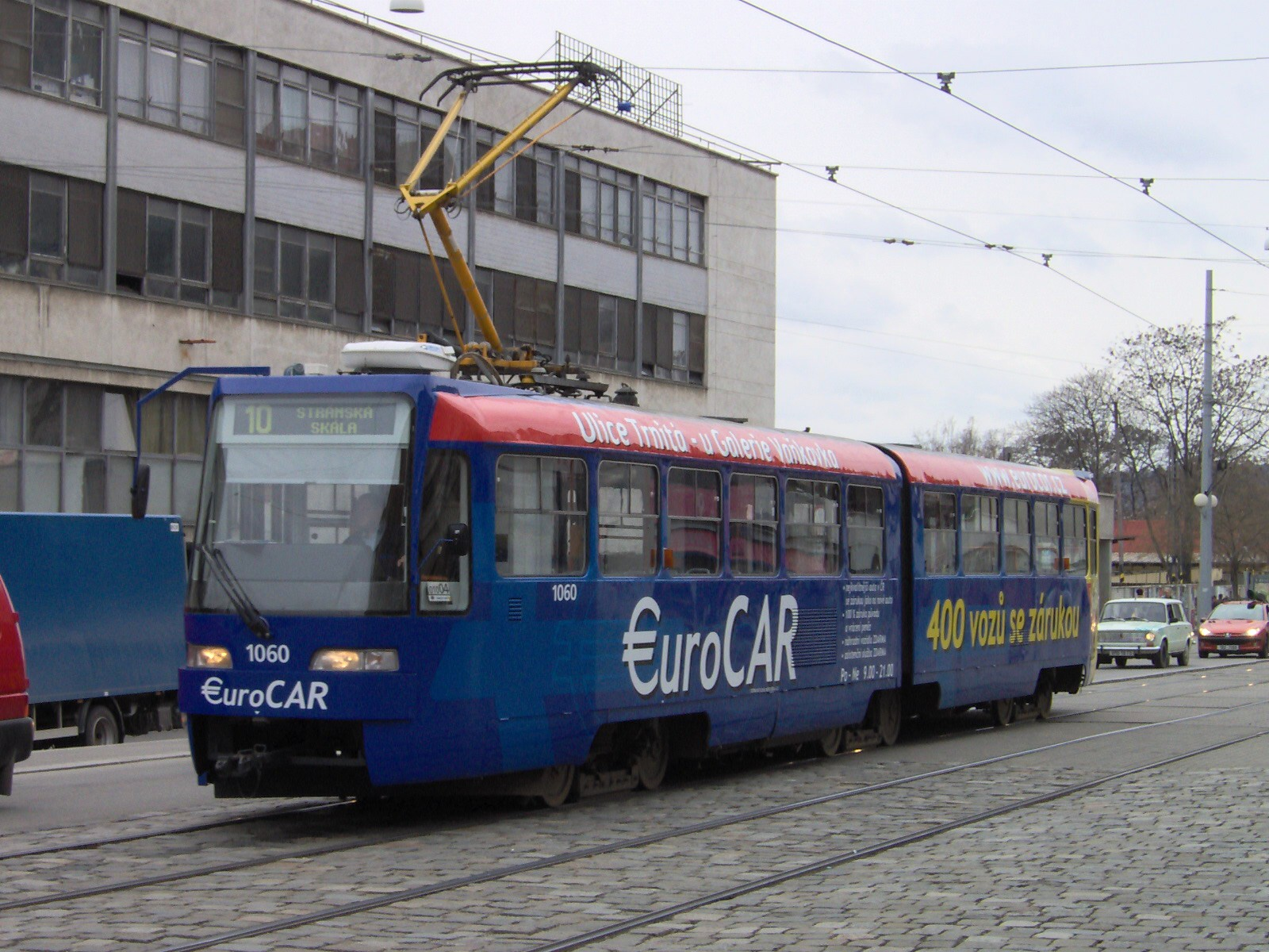 K2R.03 tram in Brno